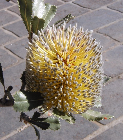 Banksia ornata Mt Annan Botanic Gardens Entrance April 2004 Photo: Cas Liber